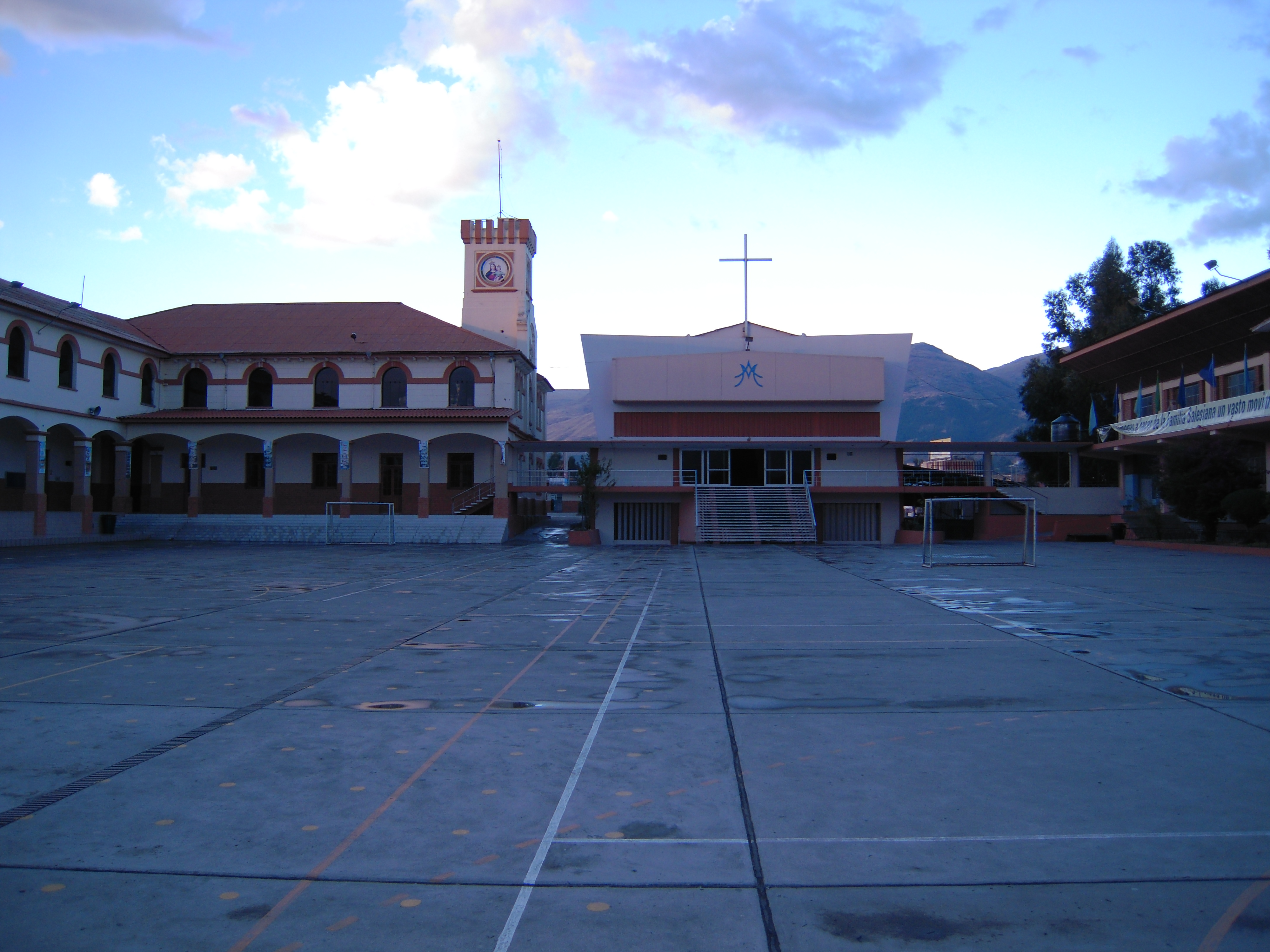 Salesiano "Santa Rosa" High School is situated in Huancayo - Peru